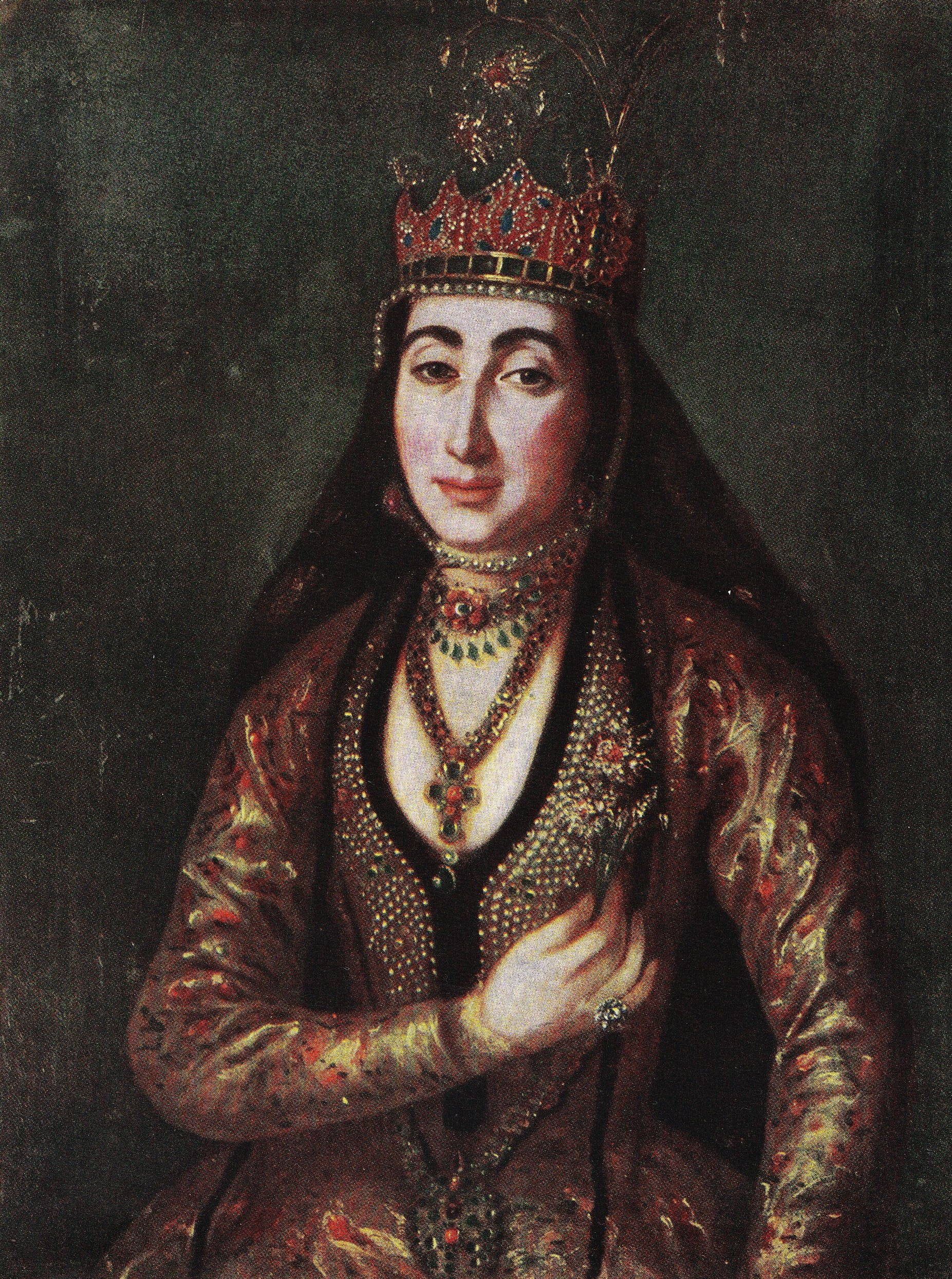 Princess Mariam Avalishvili, wife of Prince Garsevan Chavchavadze